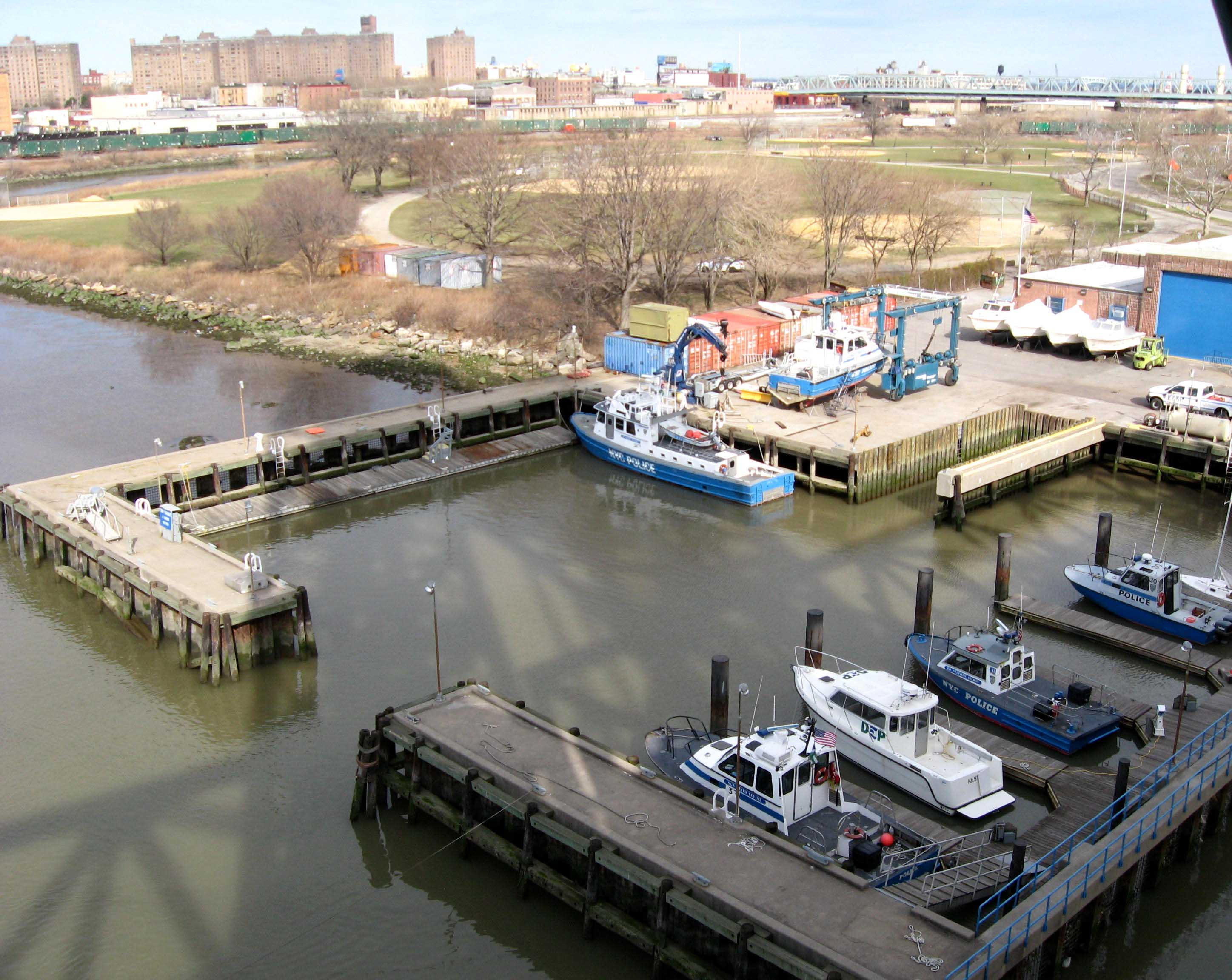 New York City Police Department Harbor Unit Launch Repair base on western Randall's Island. I took this picture from the east tower on the north walkway of Robert F. Kennedy Bridge Manhattan leg on an early spring afternoon.